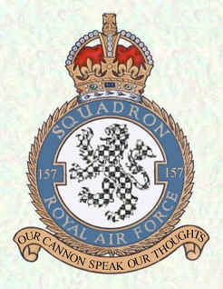 157 Squadron RAF crest during WW2